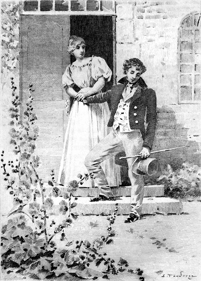 Illustration of Honoré de Balzac's Honorine: Honorine and Maurice.